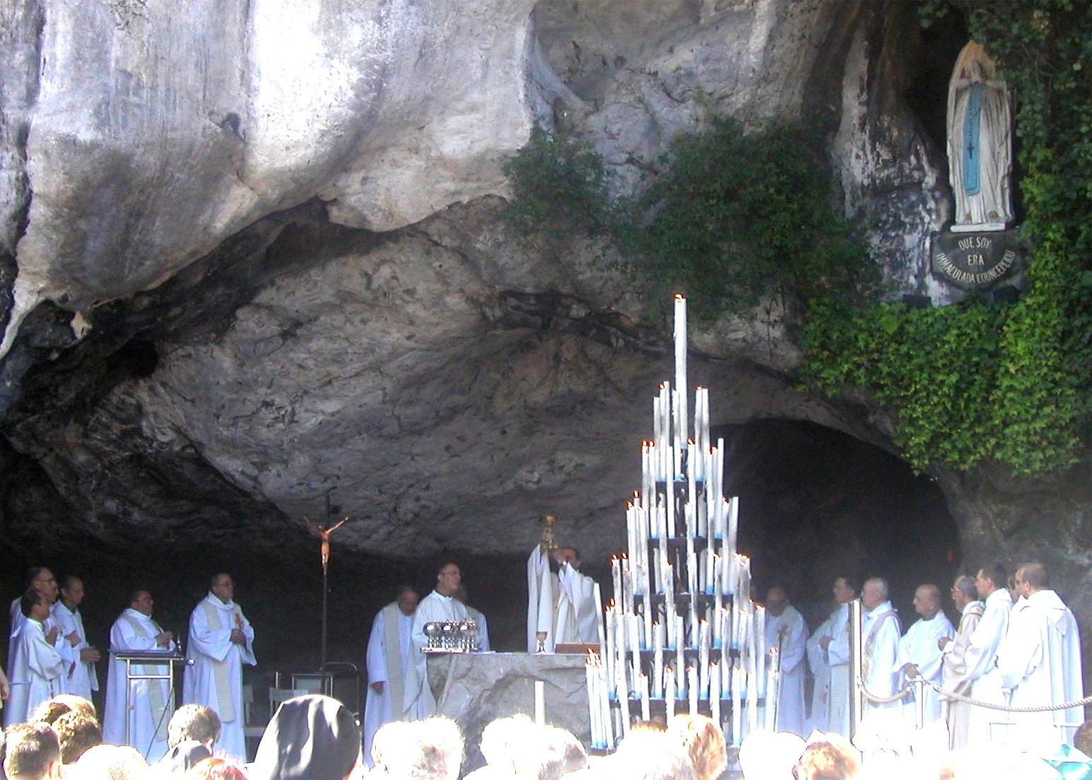 Photograph taken by me on 28 July 2006 Lima 10:04, 3 September 2006 (UTC)